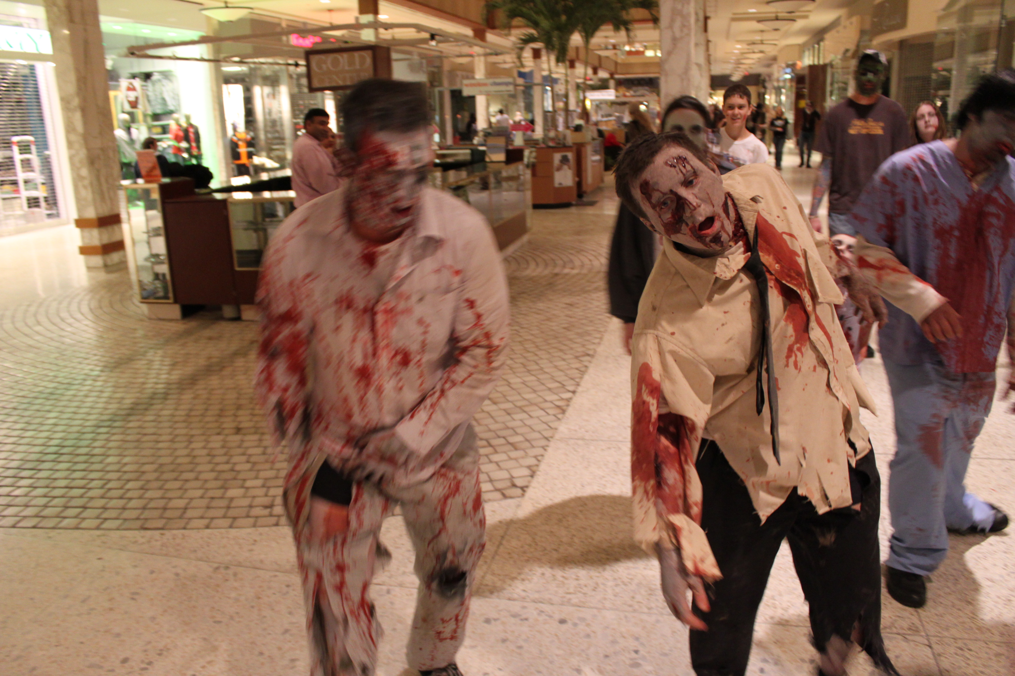 @ Monroeville Mall October 11, 2009